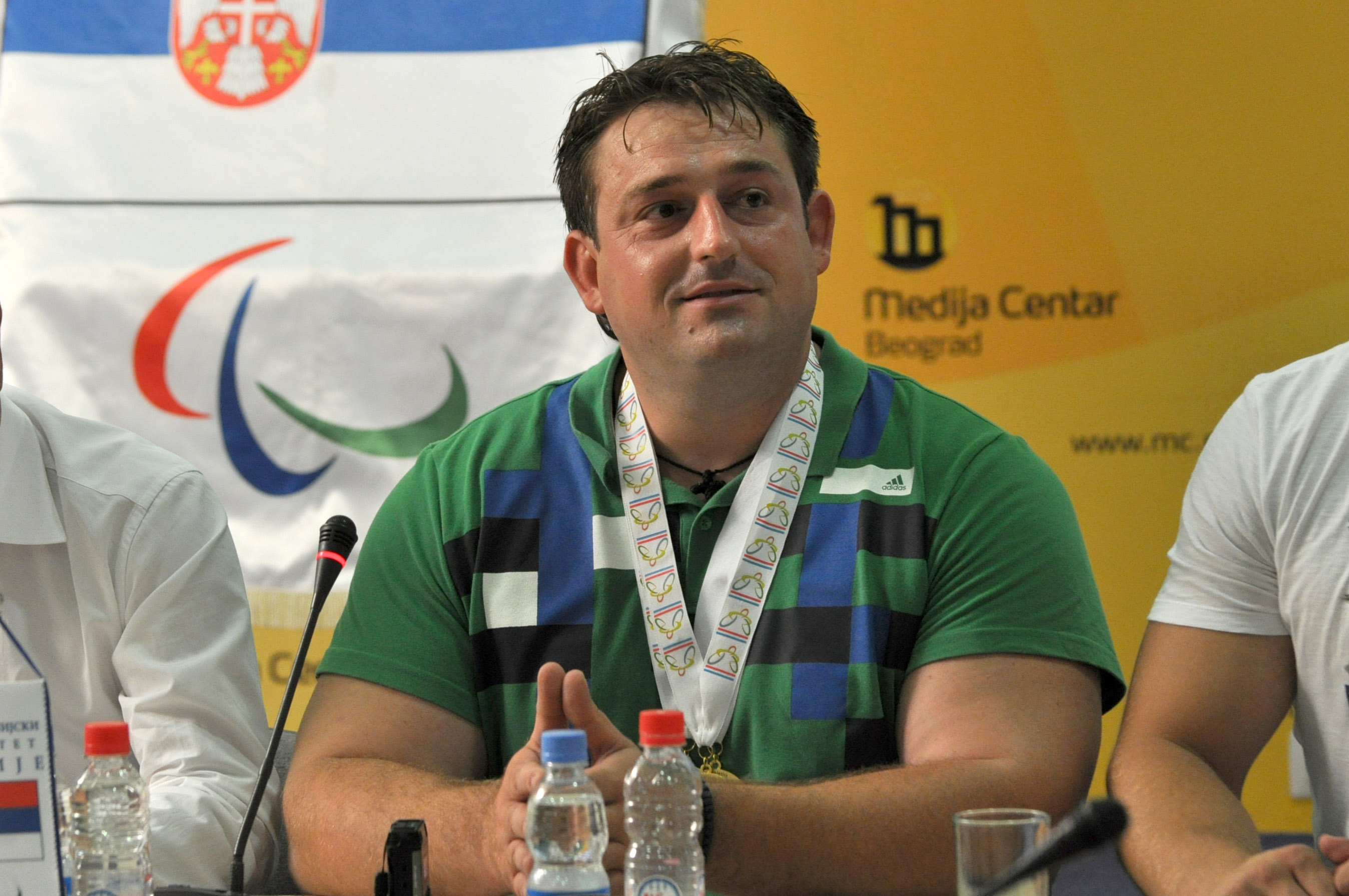 Draženko MitrovićСрпски (ћирилица): Драженко Митровић